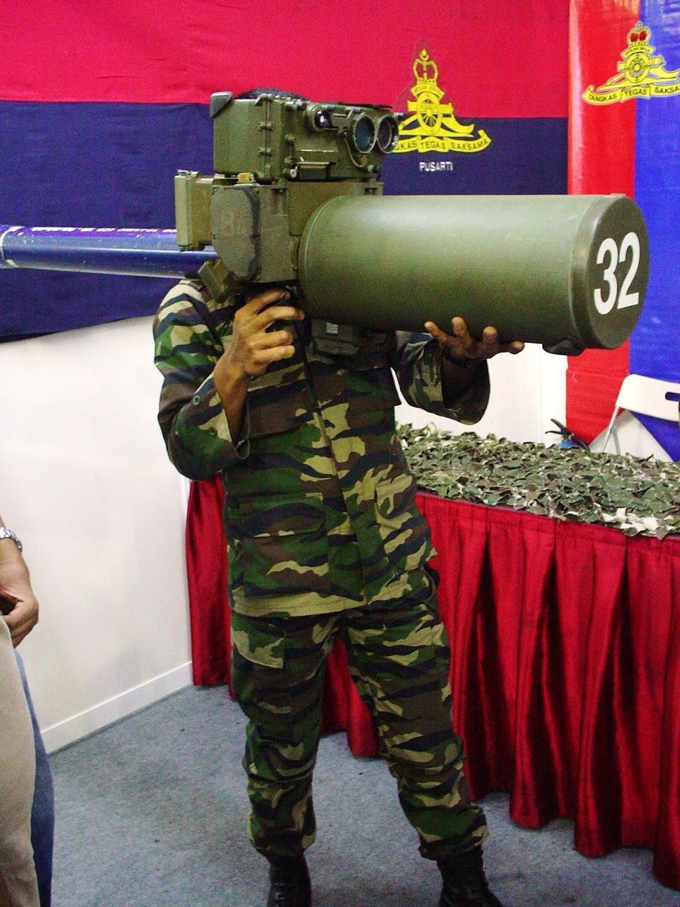 Starburst MANPADS.